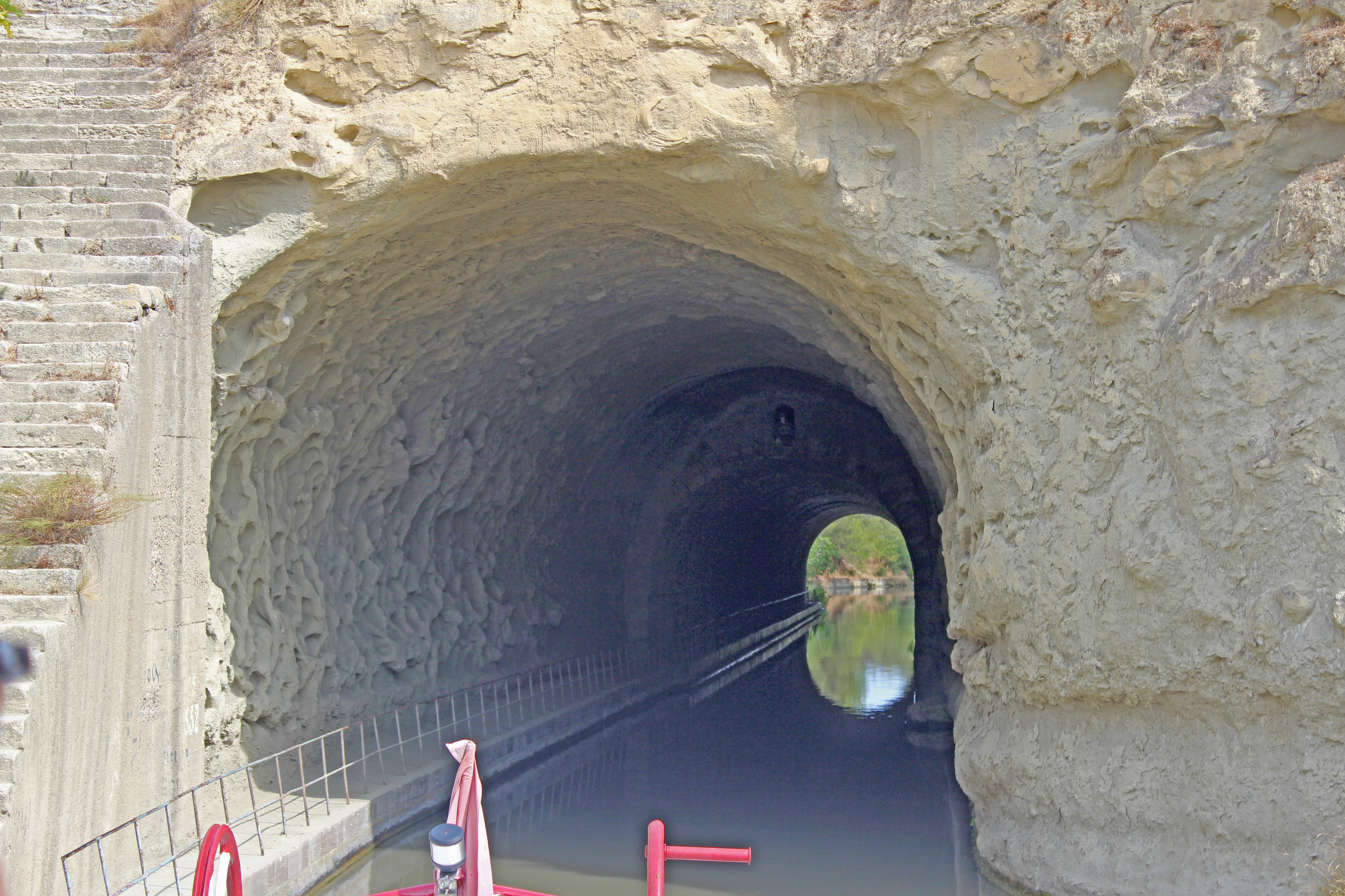 View through the Malpas Tunnel on the Canal du Midi, France through the western portal. The tunnel, 173 metres in length, which was Europe's first navigable tunnel was built in 1679.